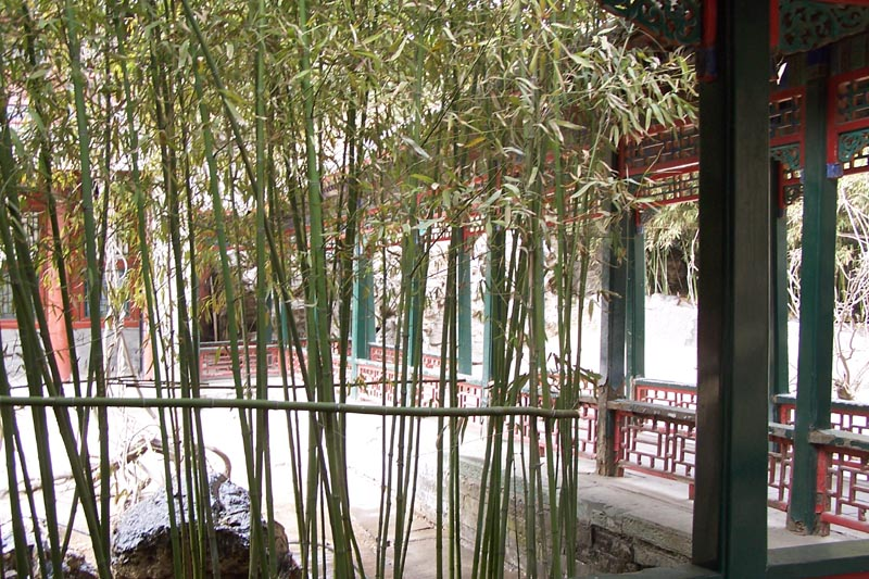 Garden of Harmony and Enchantment — Summer Palace at Beijing, China